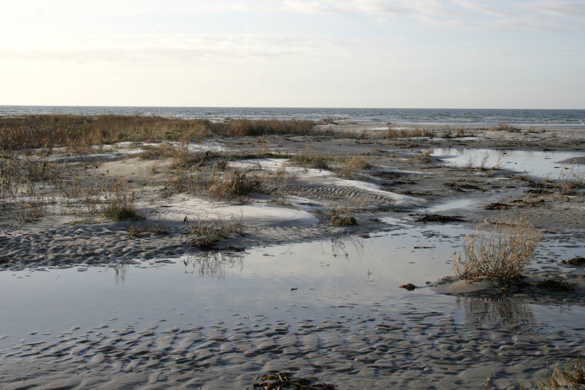 A small-sized laguna landscape is being created near the ferry-port of Ebeltoft, Jutland.